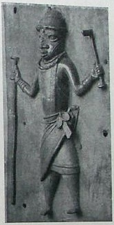 Bronze plate from Benin, Berlin III; C. 8407